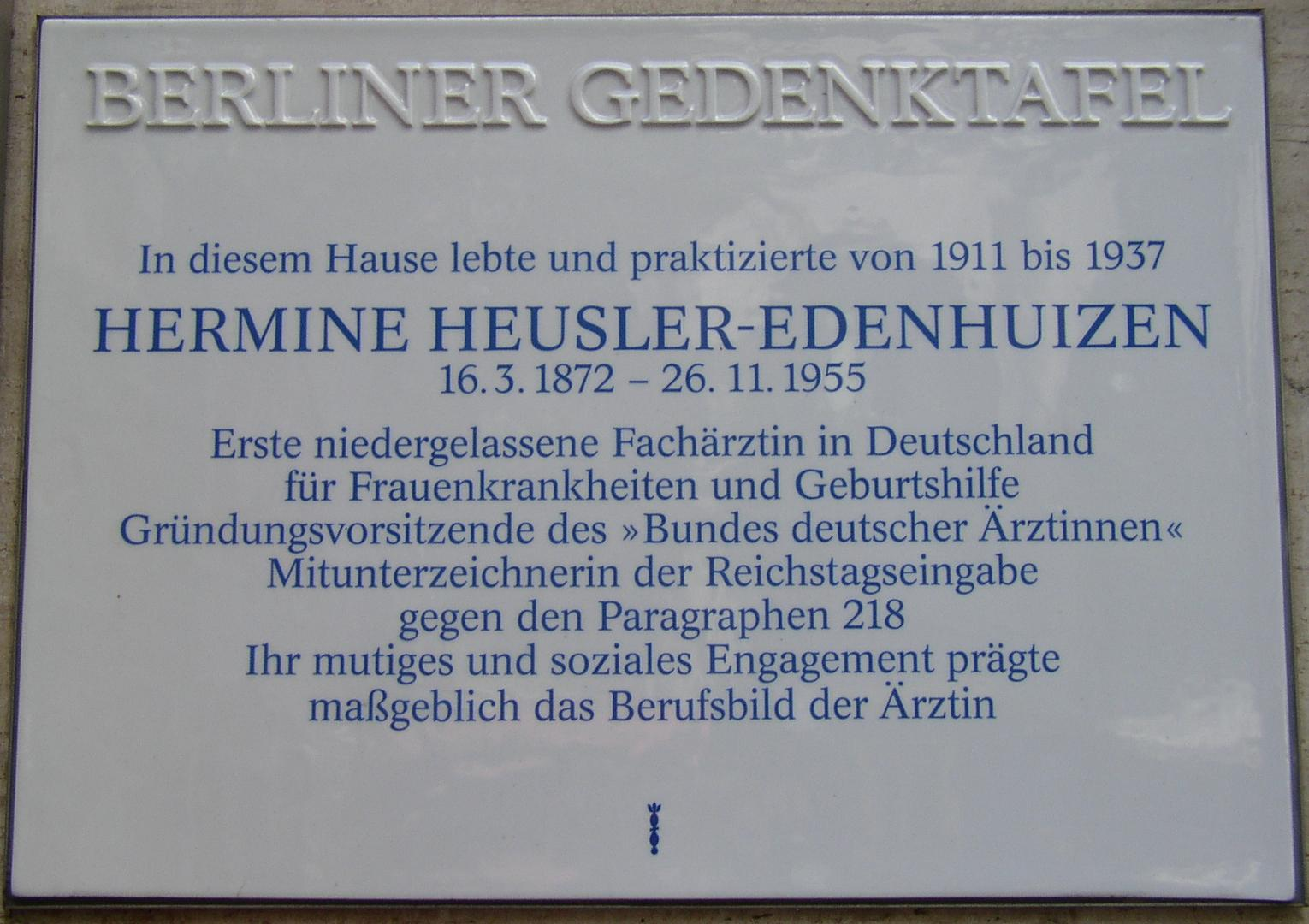 Berlin memorial plaque for Hermine Heusler-Edenhuizen in Berlin-Charlottenburg, Germany